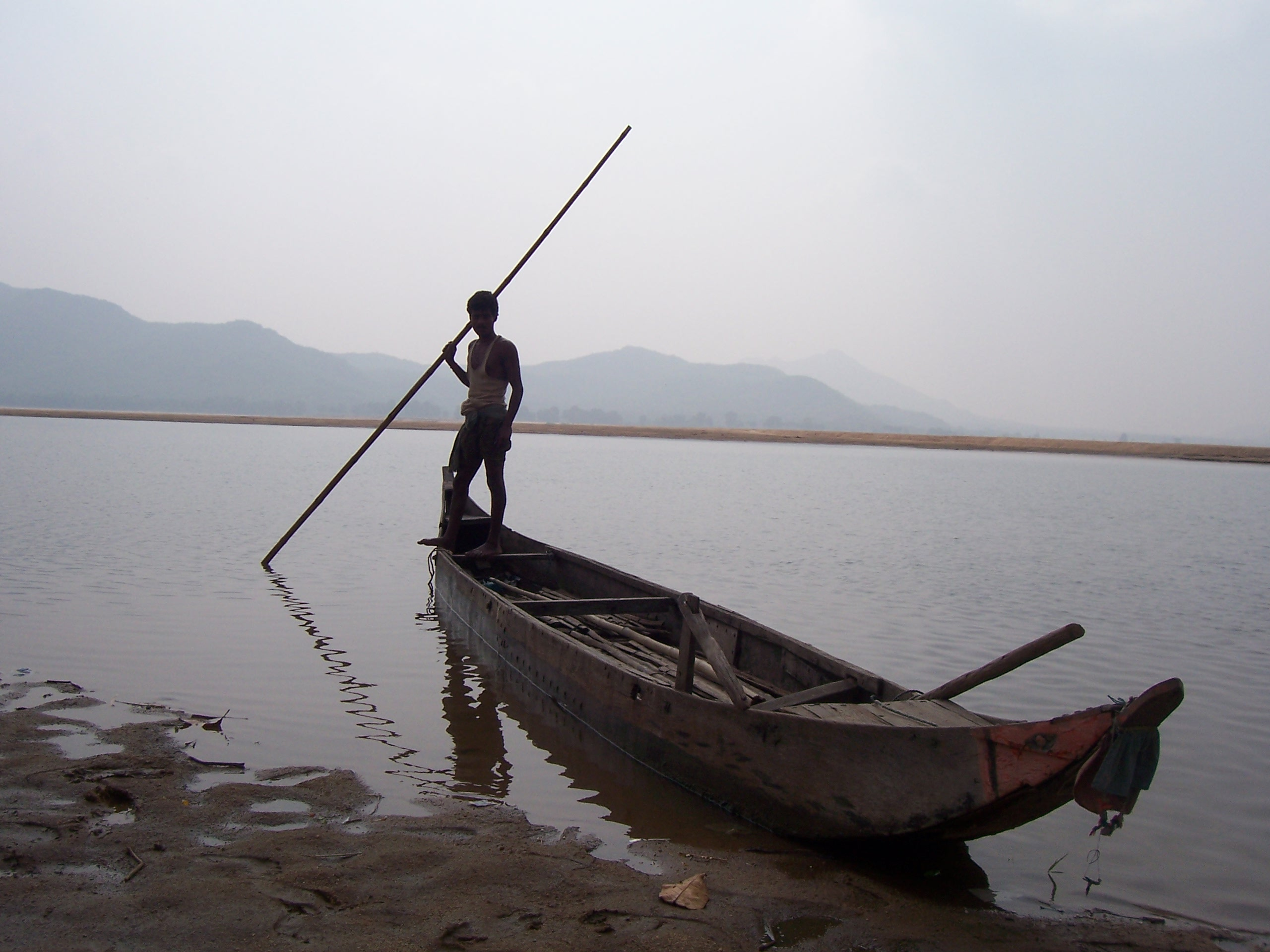 A Boat Man In Orissa